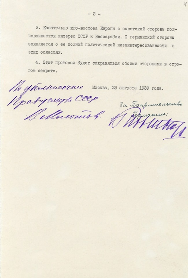 Secret Protocol to Molotov–Ribbentrop Pact Page 2